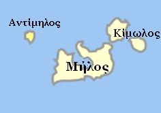 Greek island, Antimilos